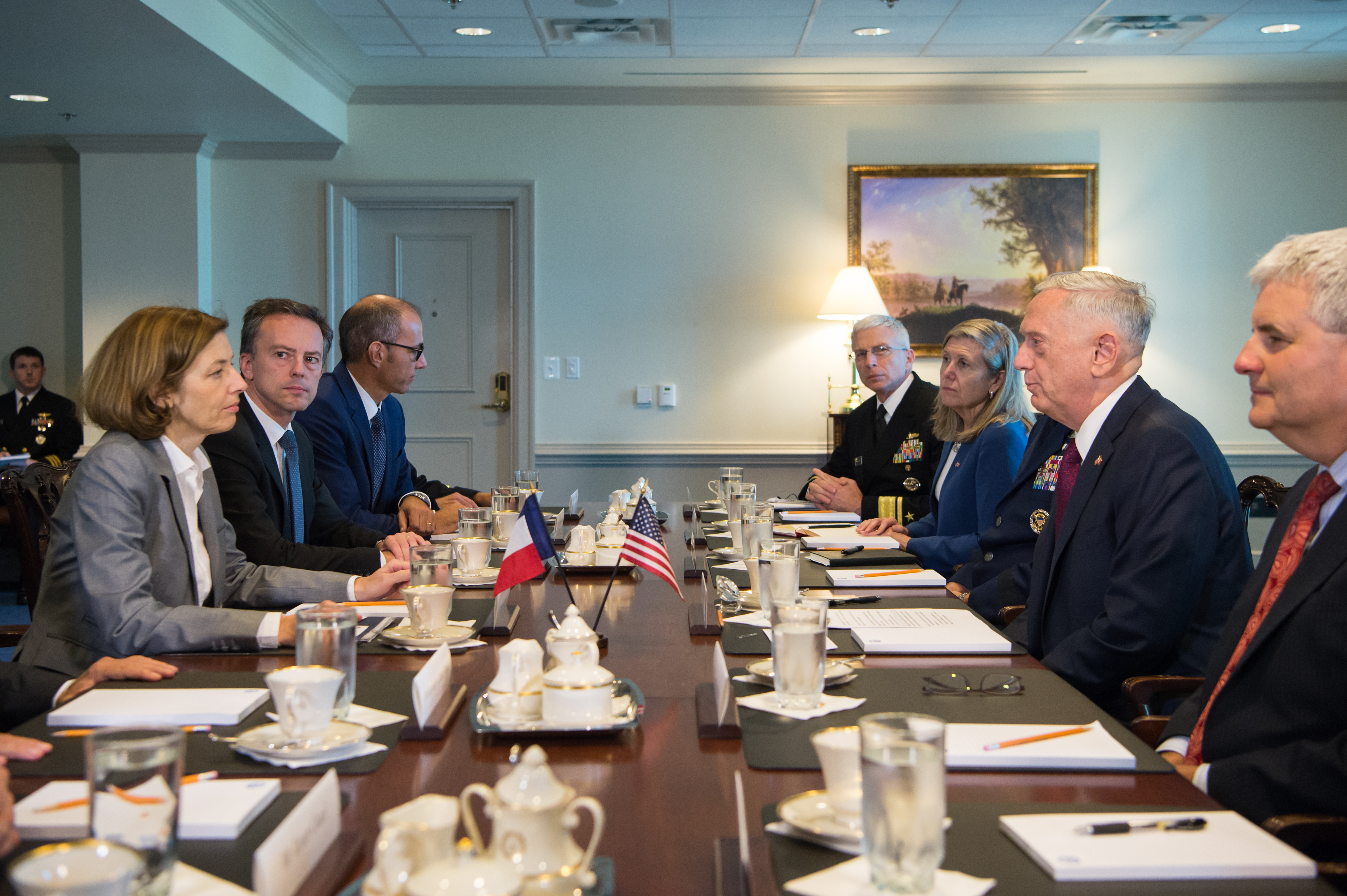 Secretary of Defense Jim Mattis meets with Florence Parly, France's minister of defense, at the Pentagon in Washington, D.C., Oct. 20, 2017. (DOD photo by U.S. Air Force Staff Sgt. Jette Carr - 171020-D-GY869-085)